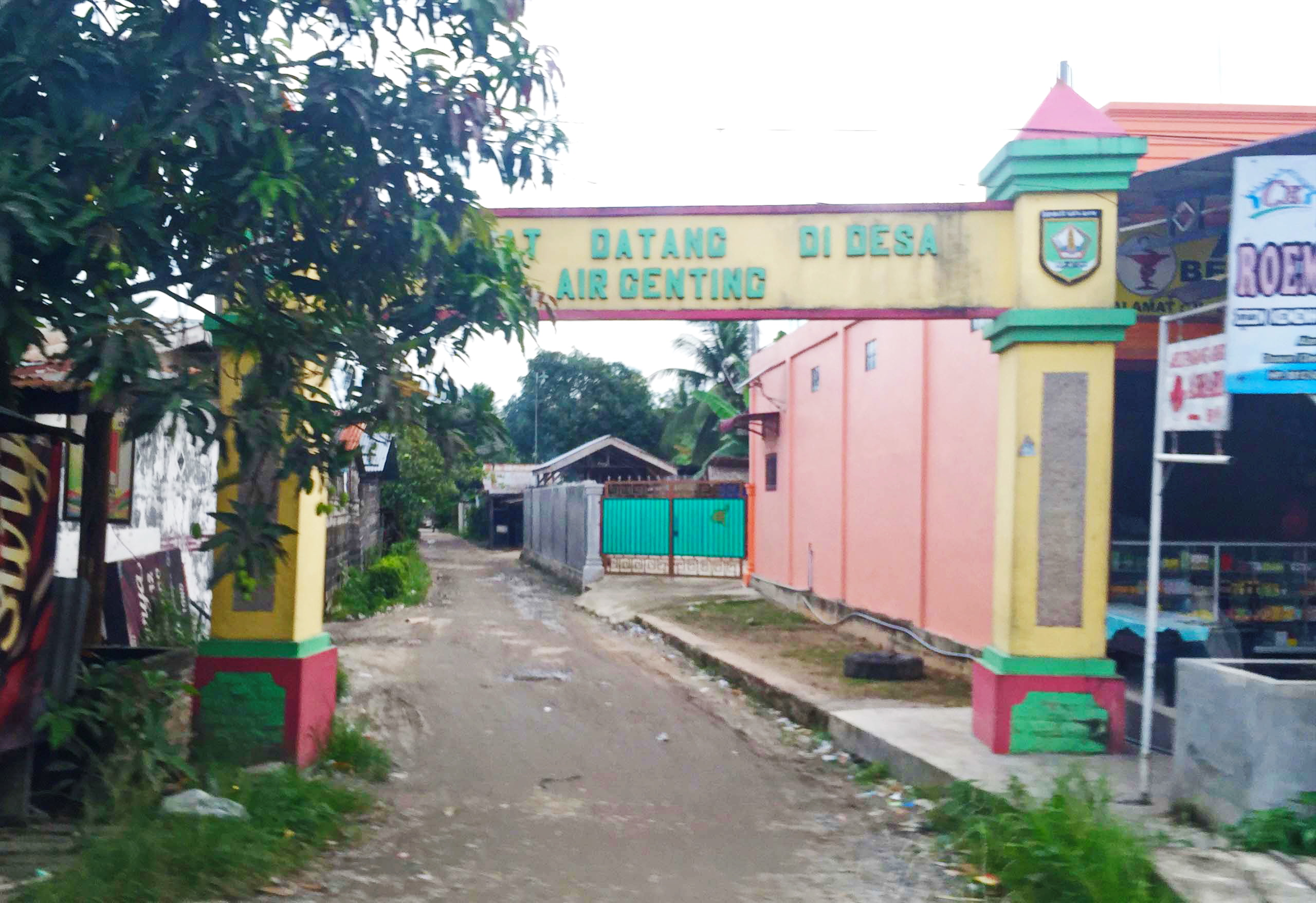 welcome gate to Air Genting, Air Batu, Asahan